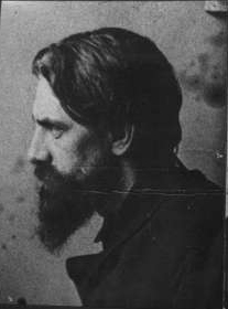 Михаил Александрович Веденяпин-Штегеман (1879—1938) — российский политический деятель, член партии эсеров, член боевой организации.